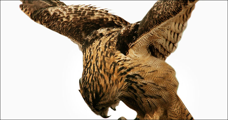 Eurasian Eagle Owl - Bubo bubo